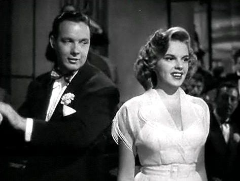 Screenshot of Judy Garland and Bob Crosby from the trailer for the film Presenting Lily Mars, 1943